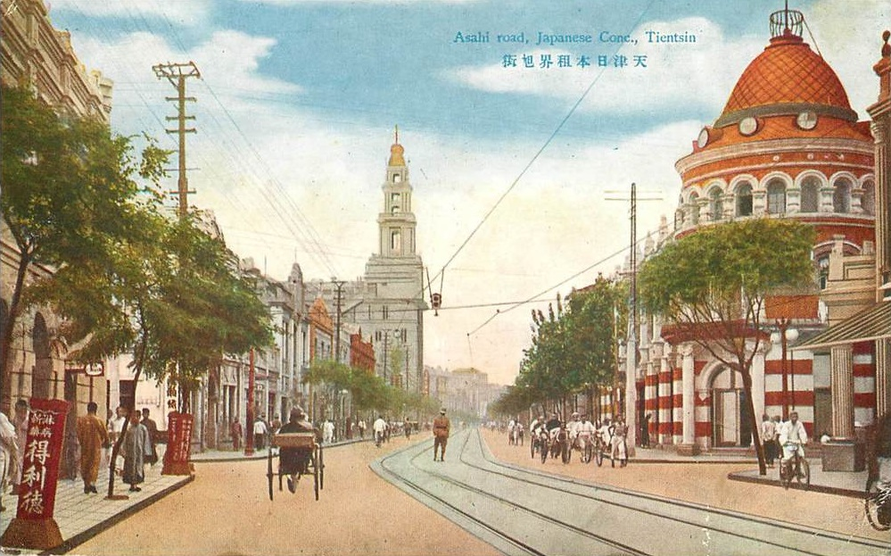 Postcard from the first decade of the 20th century showing Asahi Road, one of the main streets of the Japanese concession of Tientsin (Tianjin).